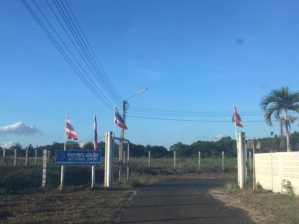 Mae Sariang Airport